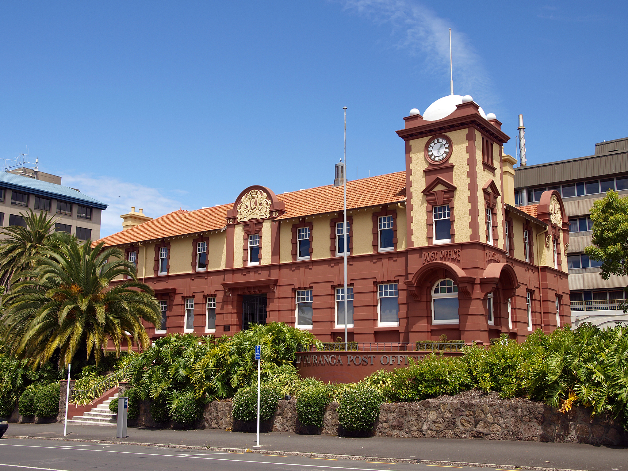 Post Office, Tauranga, Bay of Plenty, North Island, New Zealand (former government building) 41 Harington Street, Tauranga NZ Historic Places Trust registered, list number 4560